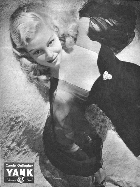 Pin-up photo of Carole Gallagher for the Feb. 11, 1944 issue of Yank, the Army Weekly, a weekly U.S. Army magazine fully staffed by enlisted men.